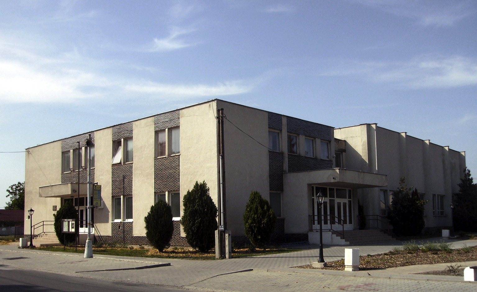 Culture house in the Square Ondreja Cabana in village Komjatice in Slovak Republic. To the left entrance to Municipal library in Komjatice